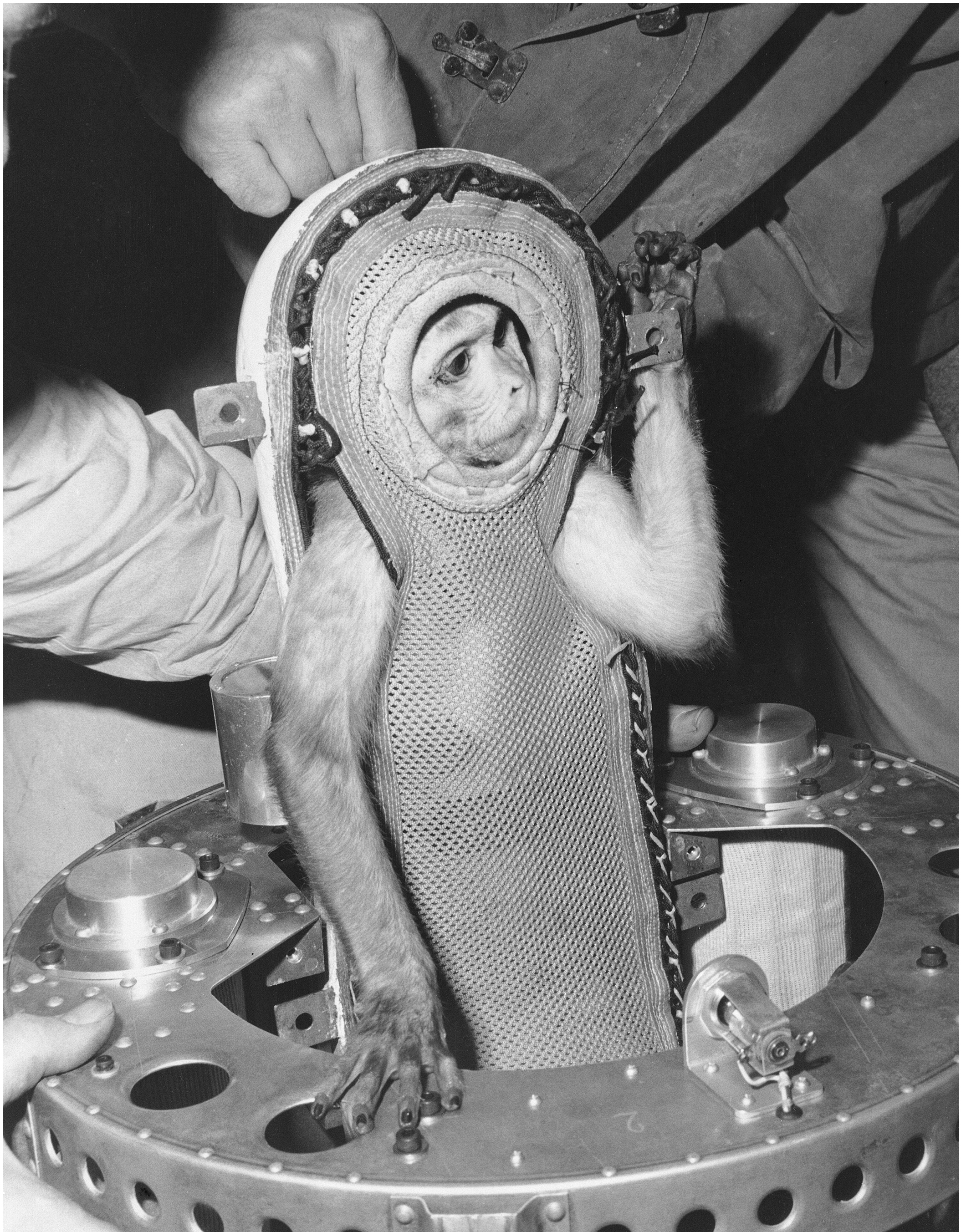 PROJECT MERCURY - LITTLE JOE TEST - SAM LAUNCHED USING A RHESUS MONKEY